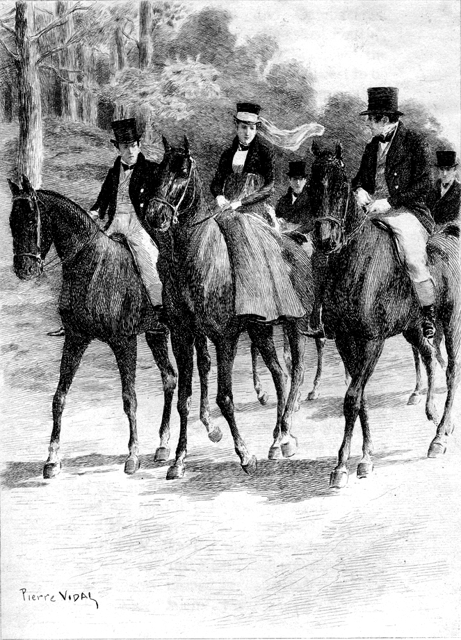 Illustration of Honoré de Balzac's A Dark Affair (1843): "On the Road to Troyes".